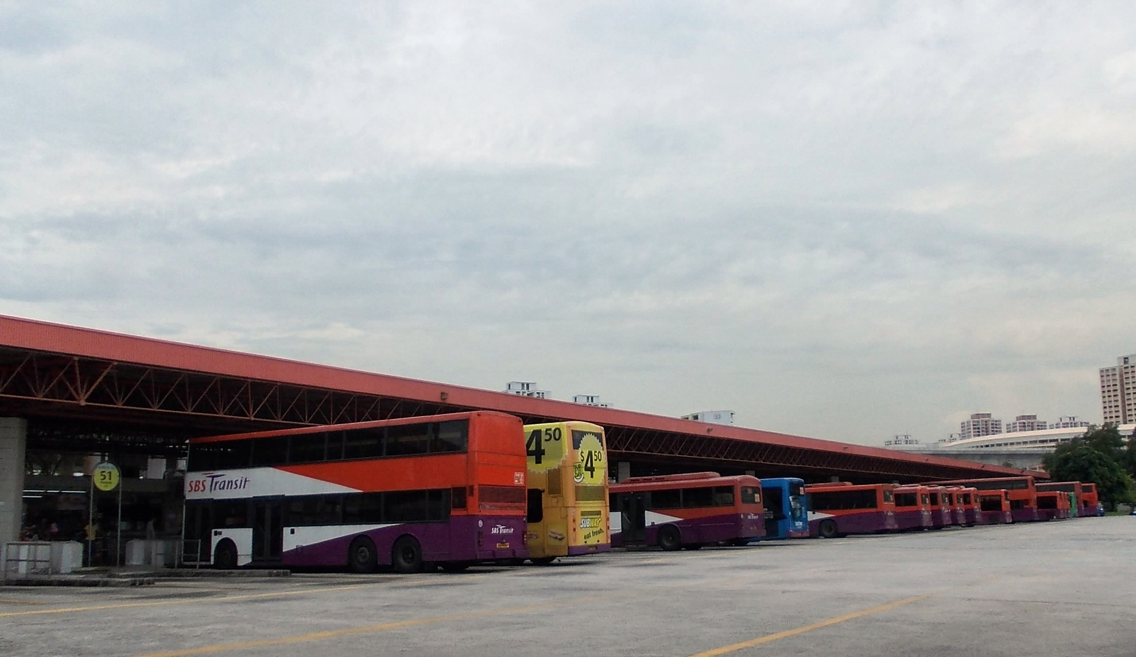 SBS Transit buses at Jurong East Bus Interchange. Taken on 18 April 2011.